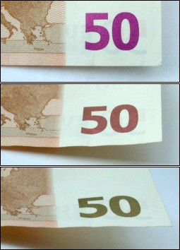 color change of 50 EUR note if tilted